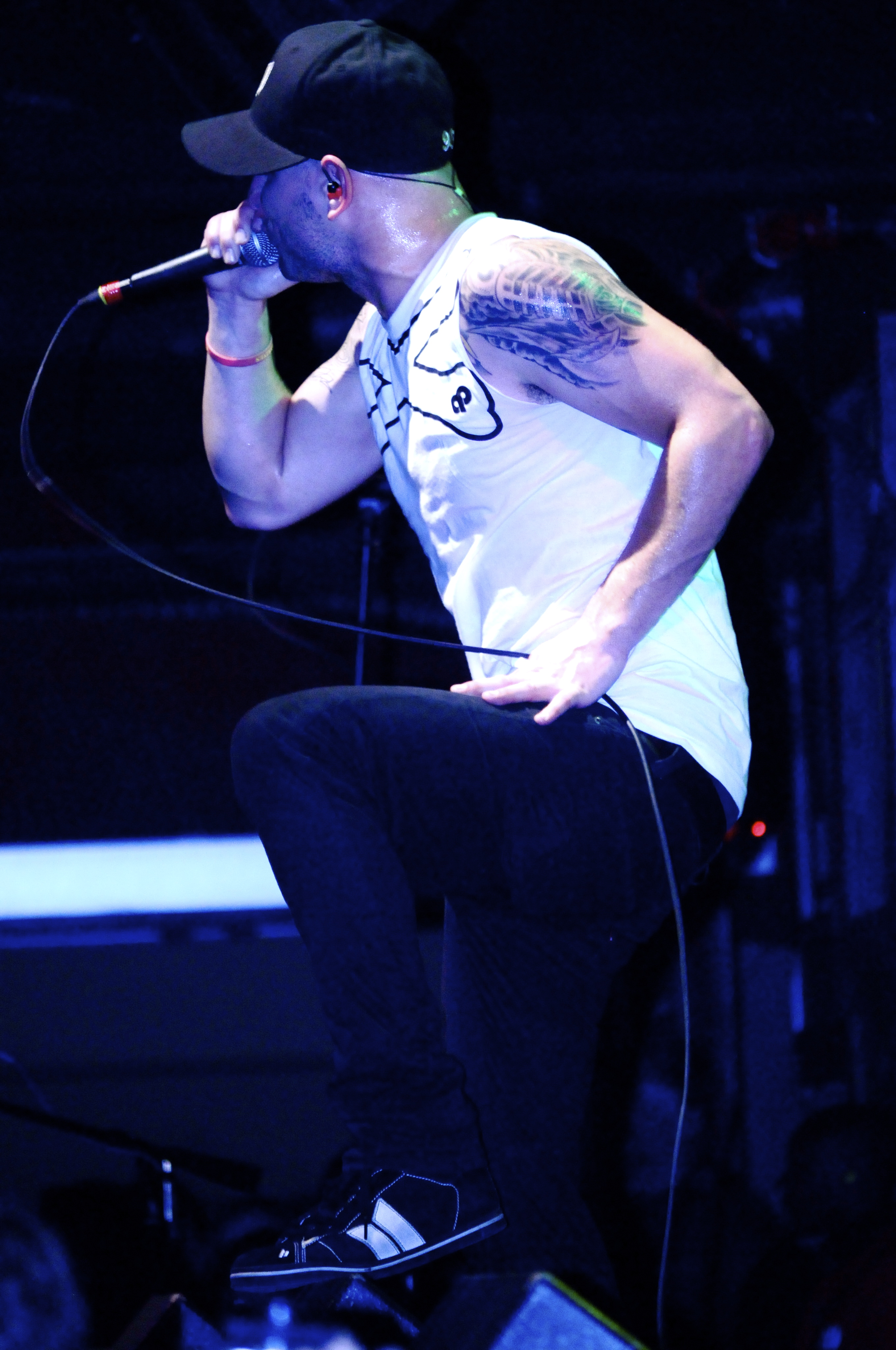 Nick Thompson from Hit the Lights band.